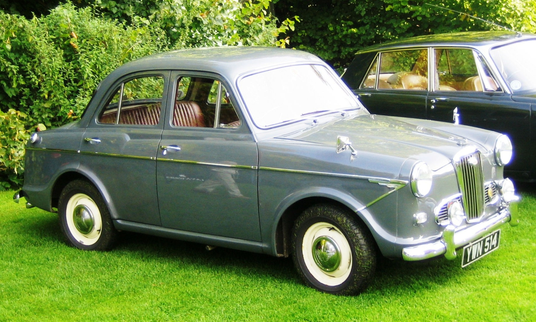 Wolseley 1500 at Castle Hedingham